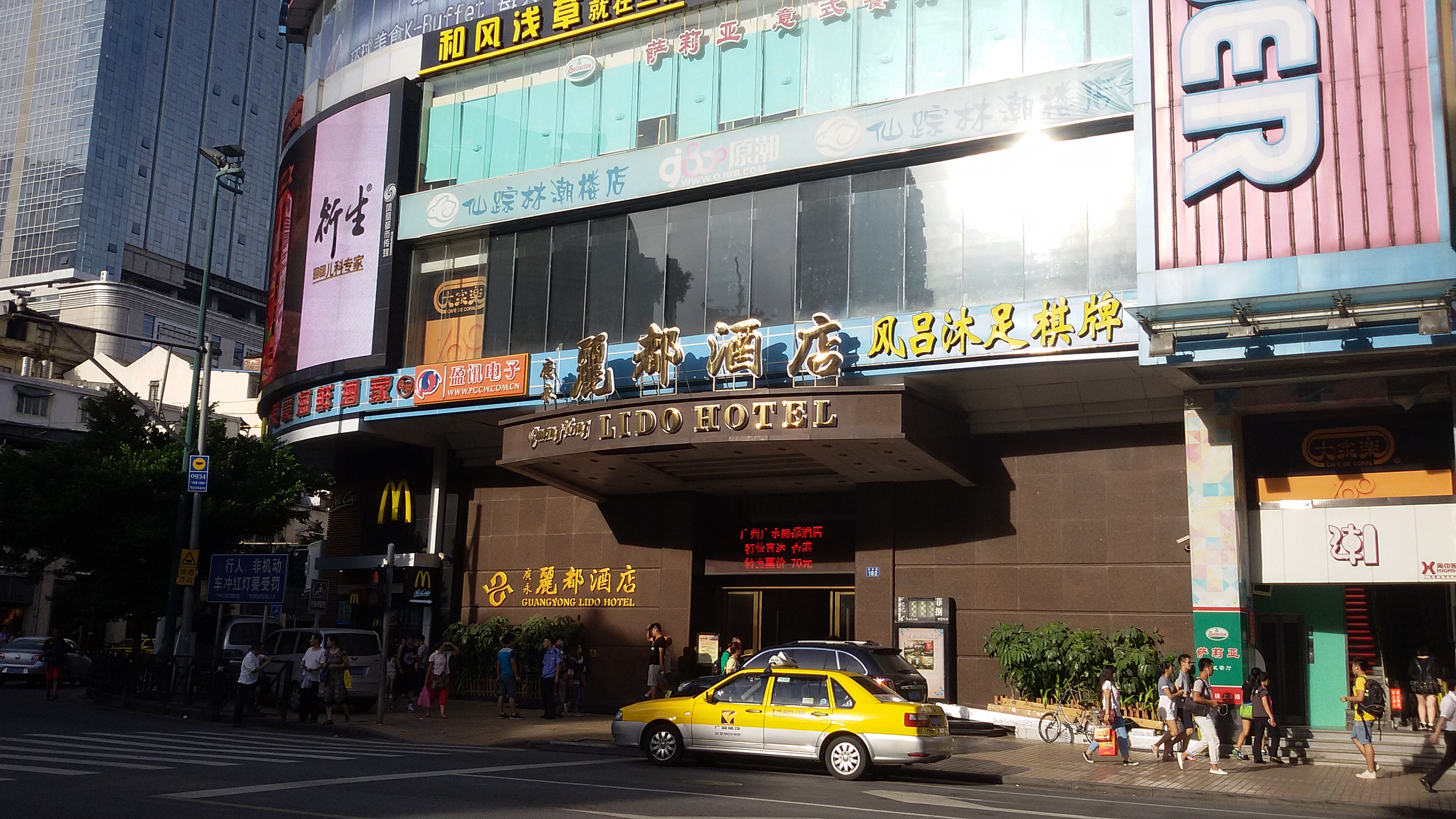 Guang Yong LIDO HOTEL 粵語: 廣永麗都酒店